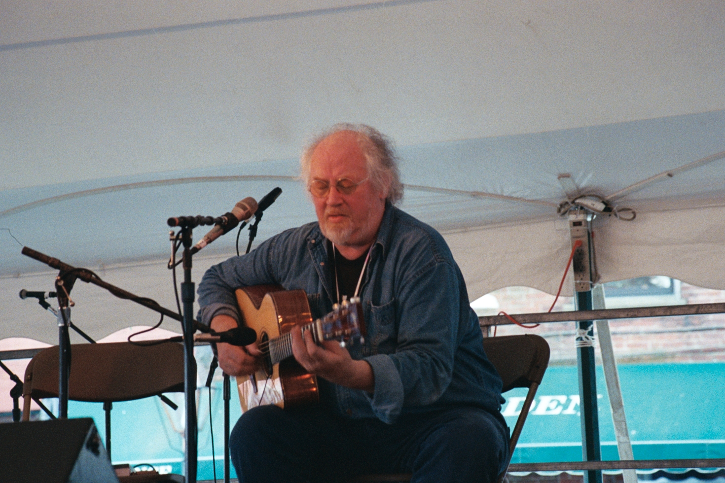 John Renbourn and Jacqui Mcshee, of Pentangle, perform on the Custom House Square stage at New Bedford Summerfest 2005.